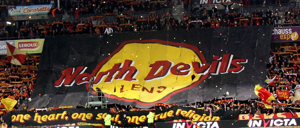 Tifo North Devils Lens-Sochaux